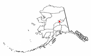 Adapted from Wikipedia's AK borough maps by Seth Ilys.